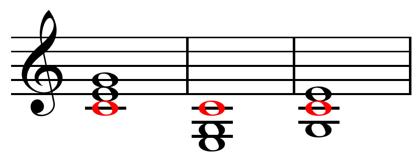 Root position, first inversion, and second inversion C major chords. Chord roots (all the same) in red.